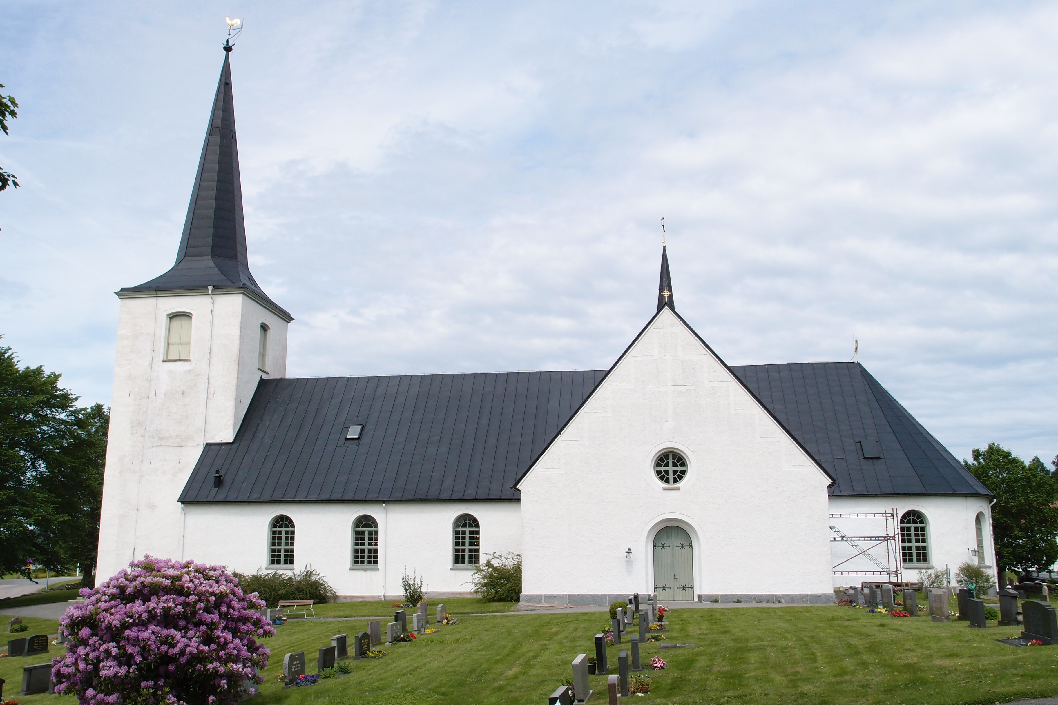 Sätila Church